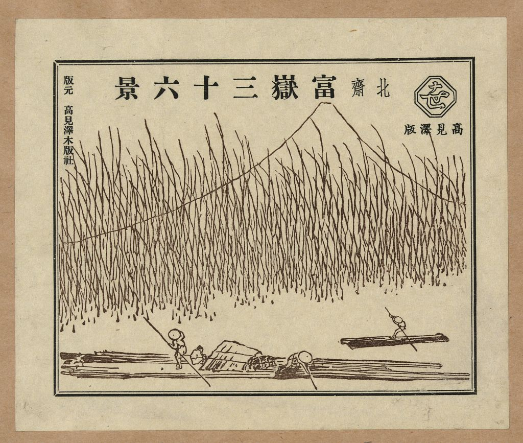 Pictorial envelope for Hokusai's 36 views of Mount Fuji series